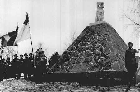 Suinula massacre memorial unveiling.